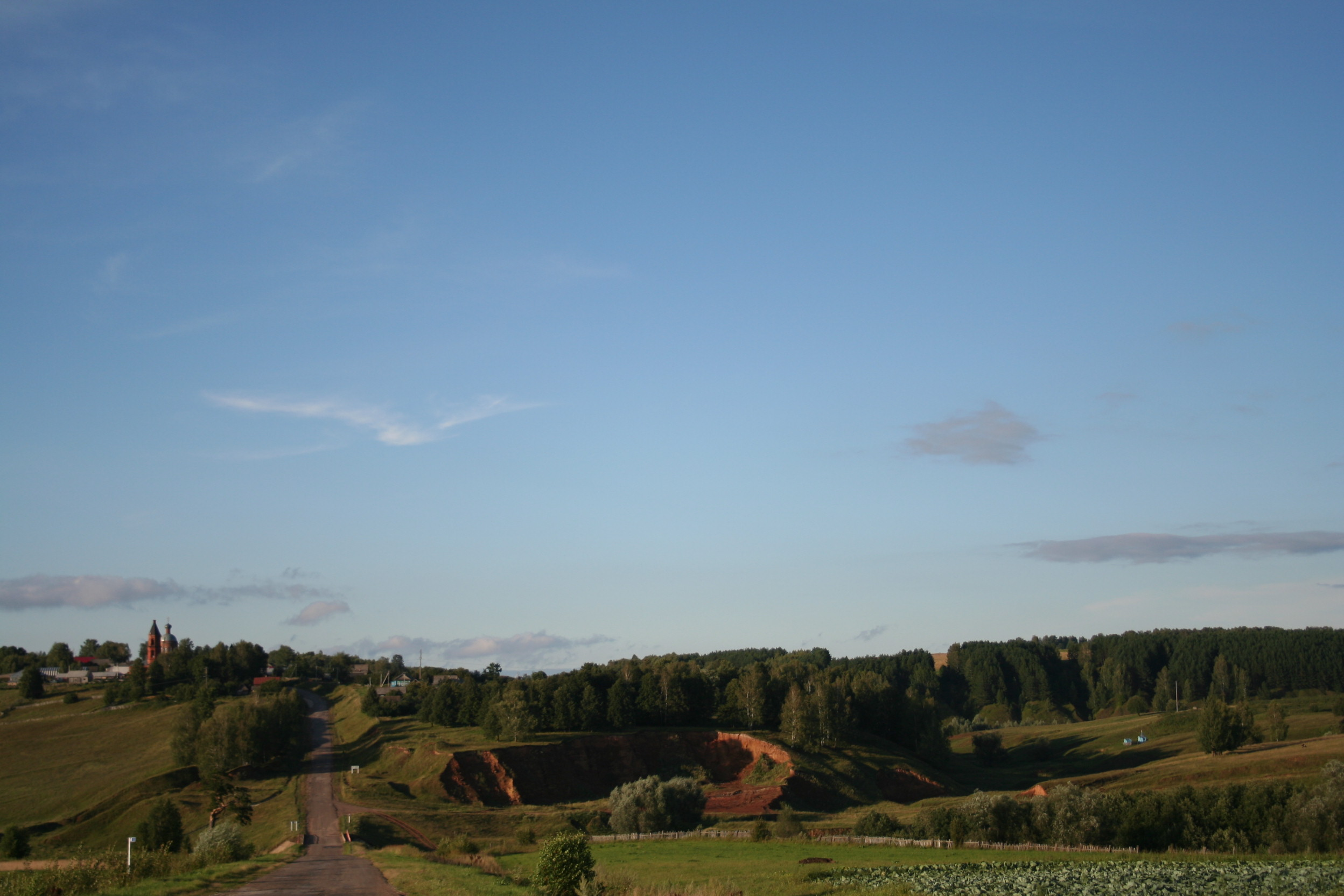 The view to village Paiskyryk in the Hill Mari district of Republic of Mari, Russia.